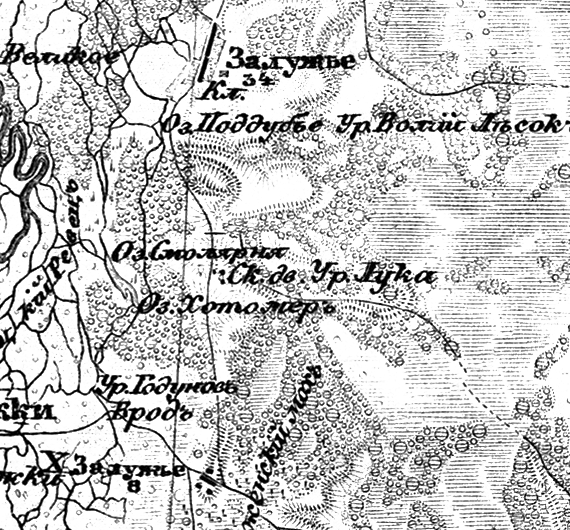 Zaluzhzhia on the map "Военно-топографическая карта Российской Империи" (known as "Schubert's map"), XX 5, 1866-1887 (issued in 1913).